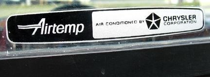 Chrysler Airtemp decal on vehicle window